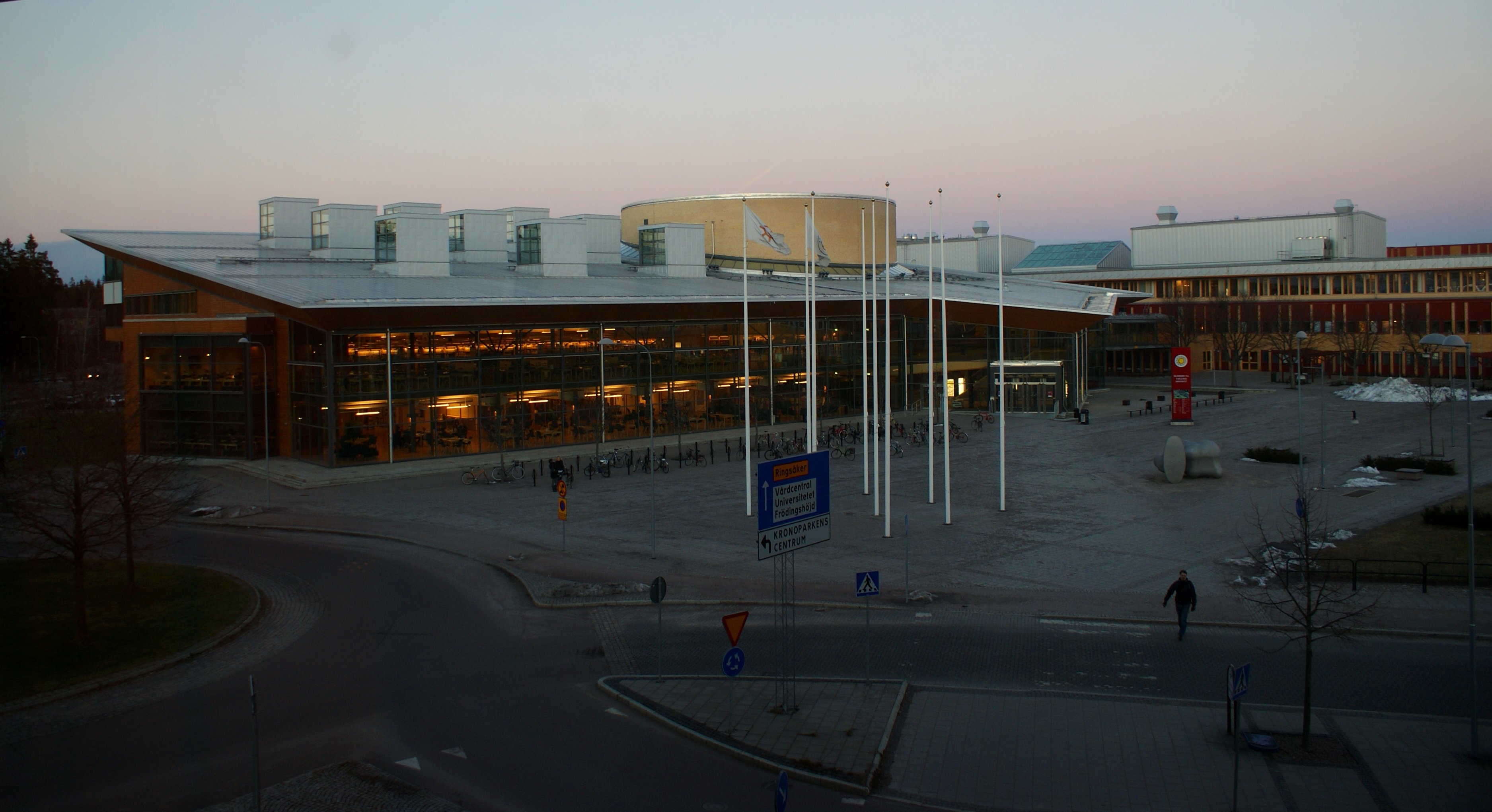 Karlstad university library and the university to the right (and behind).